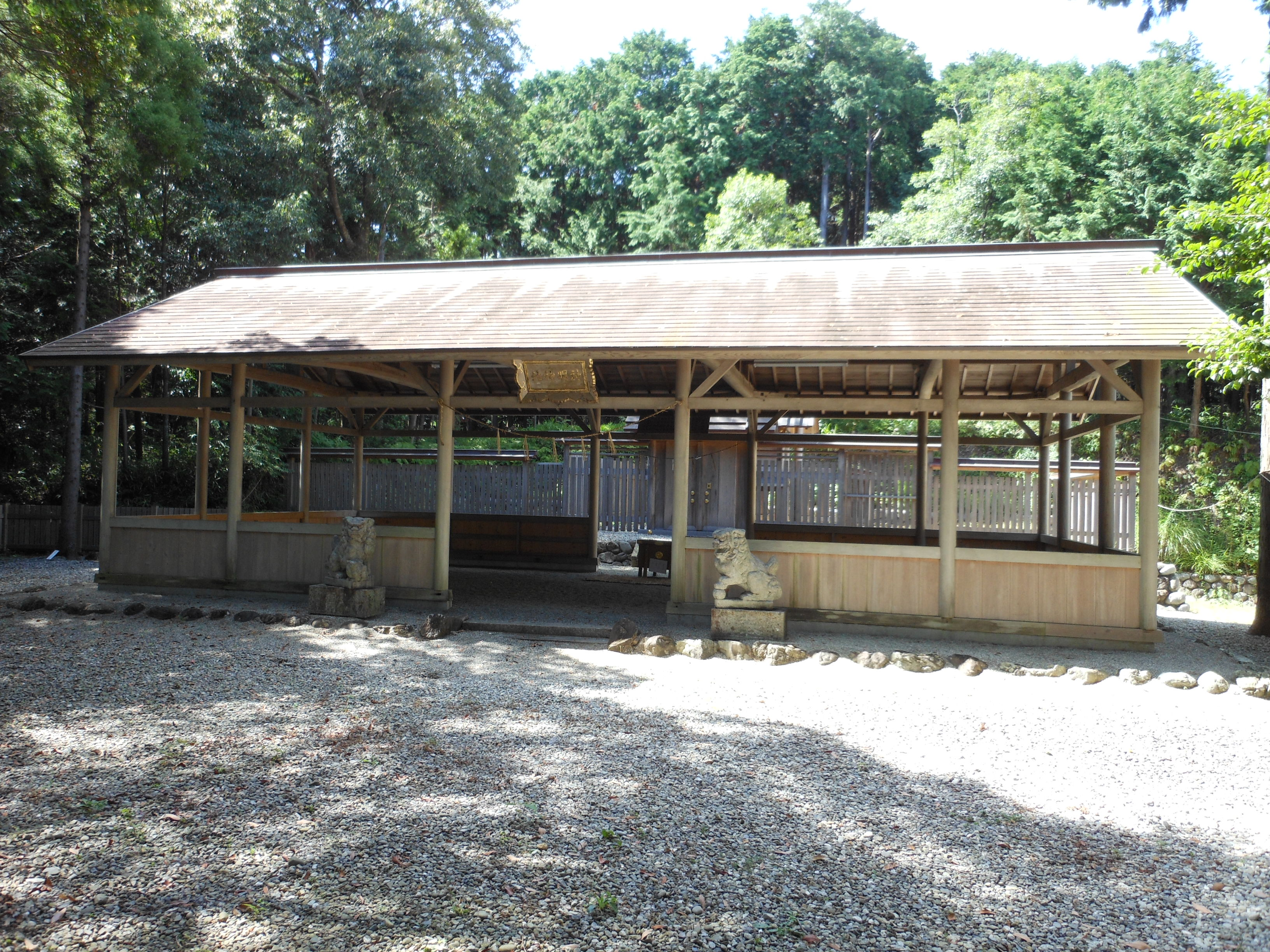 This is the Shimmei Shrine, which is located in Agocho-Shimmei, Shima, Mie, Japan.